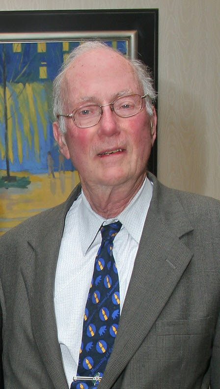 Charles Hard Townes, at the NIBIB's 5th Anniversary Symposium, held in June 2007